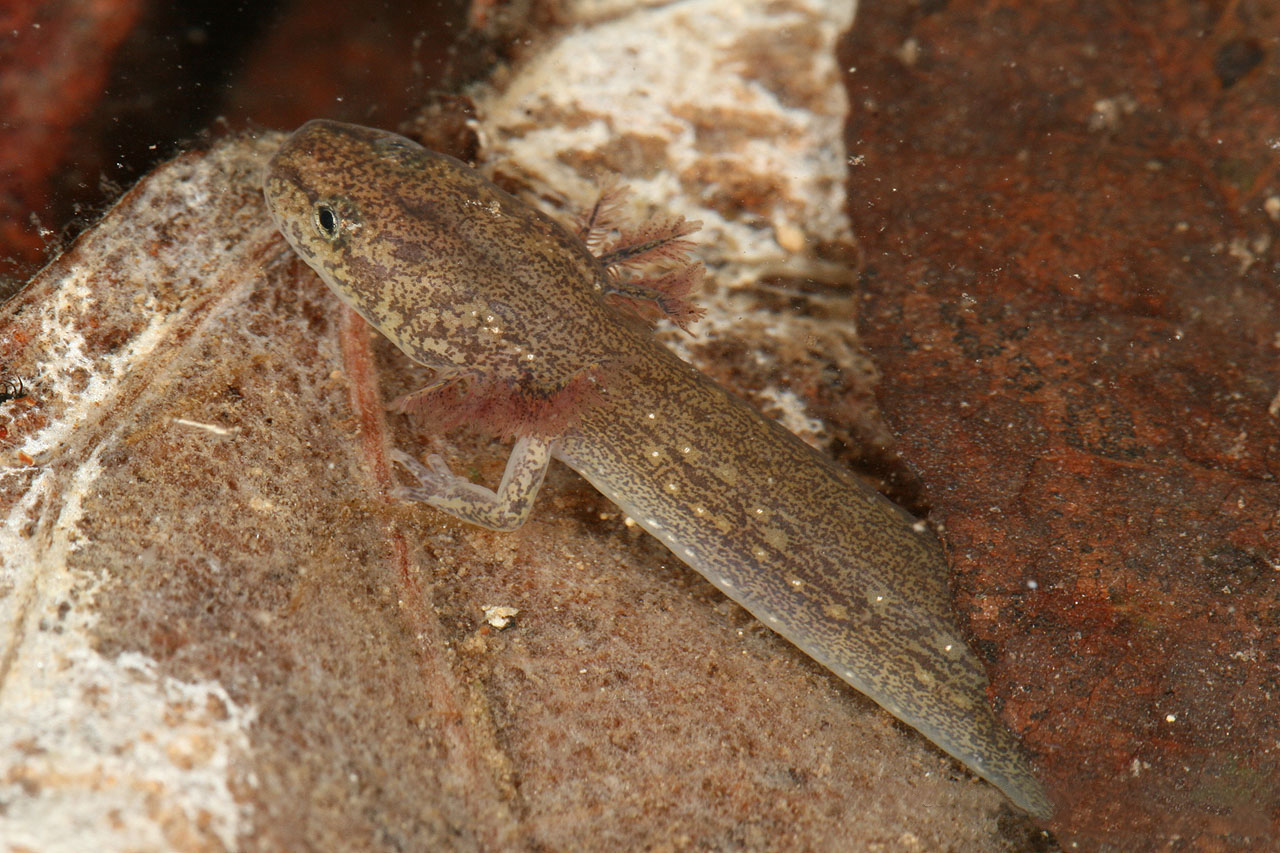 Jollyville plateau salamander (Eurycea tonkawae), Travis County, Texas